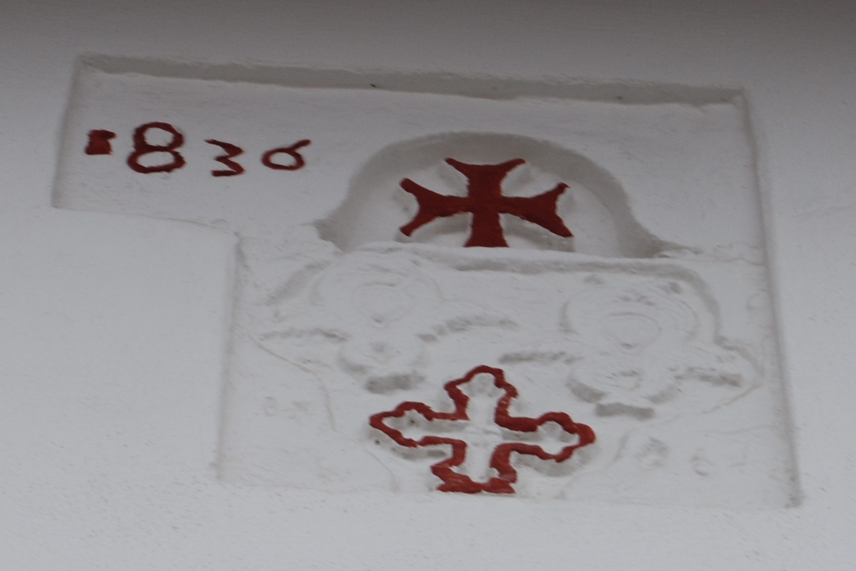 Saint Pantaleon Church, Serres